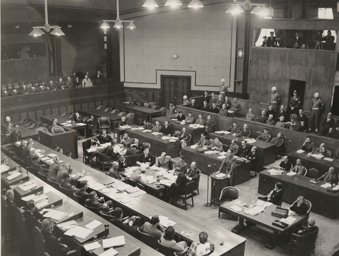 Maj.Ben Bruce Blakenley,defense counsel,addresses the court at the International War Crimes Tribunal for the Far East